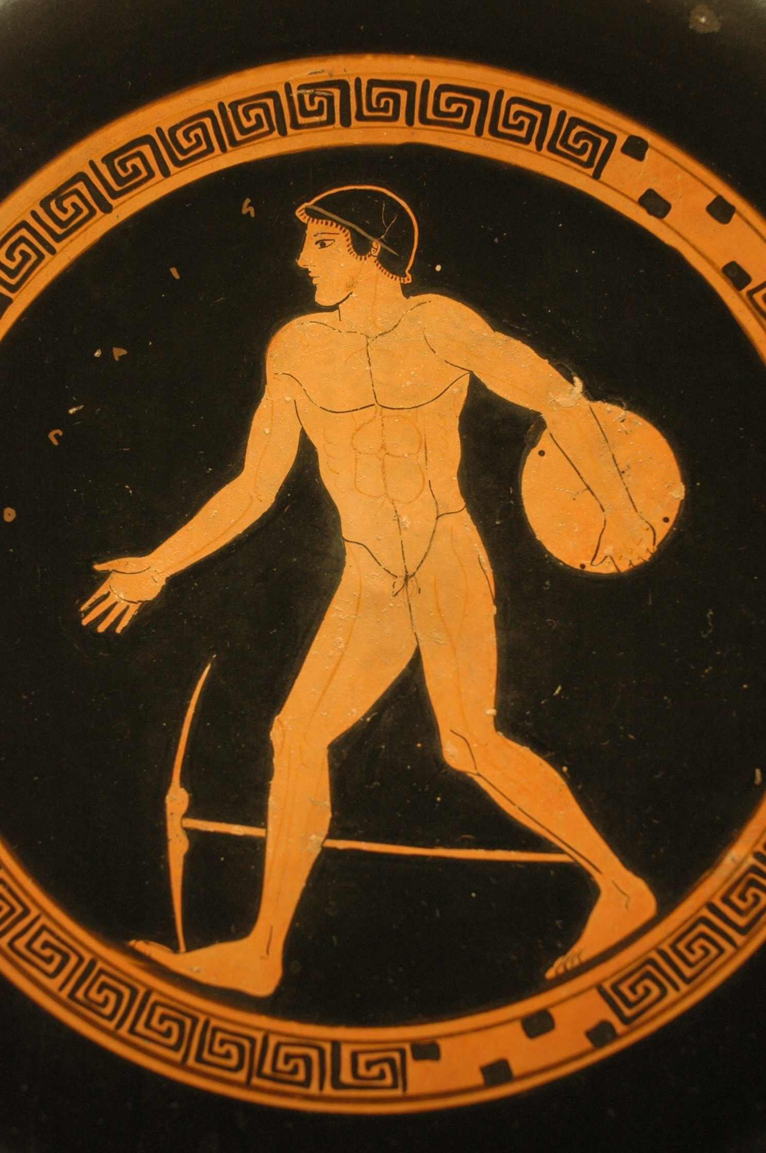 Discobolus (disc-thrower). Interior from an Attic red-figured cup, ca. 490 BC.